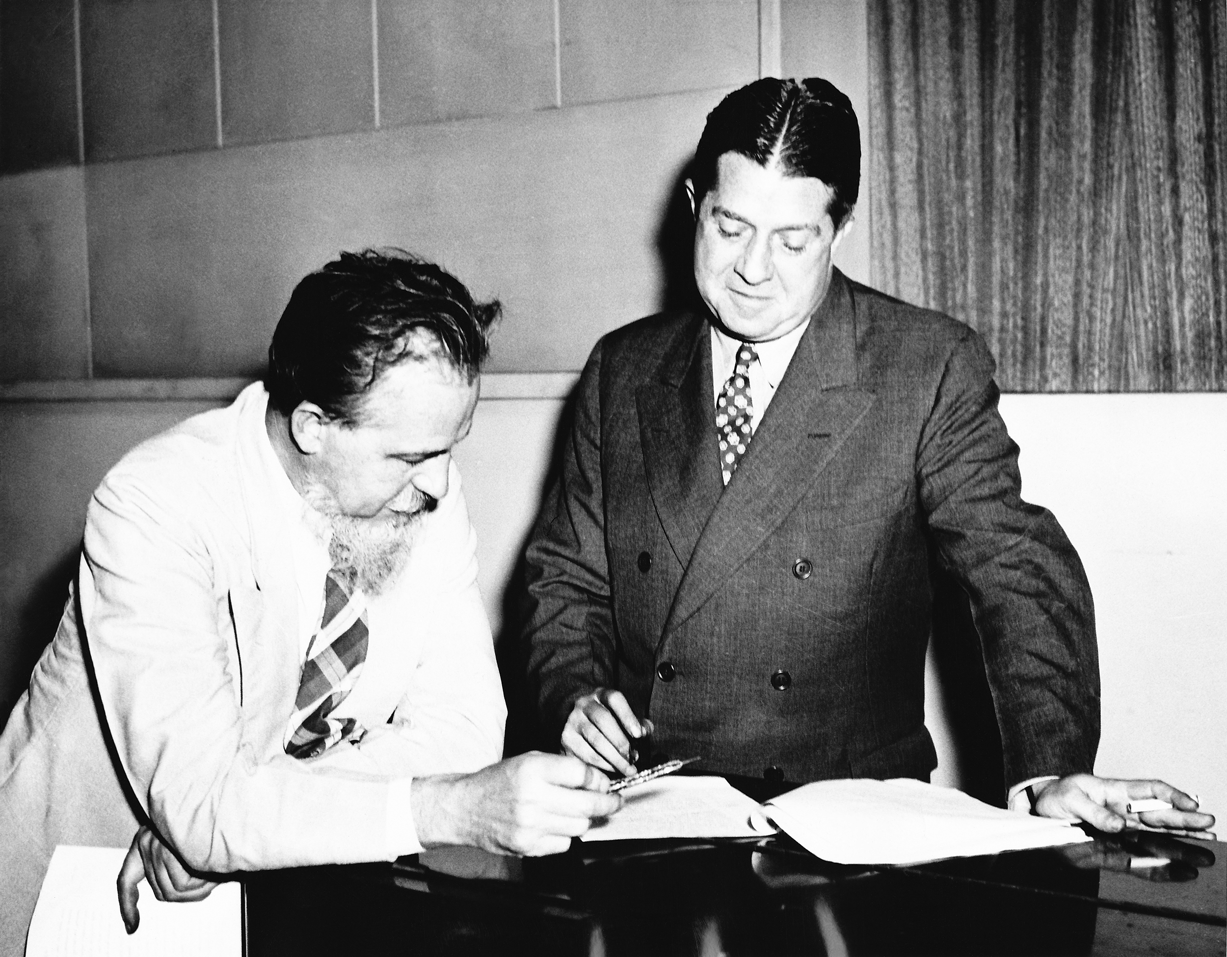 Promotional photo of Rex Stout and Paul White working on the CBS Radio program Our Secret Weapon (1942–1943)